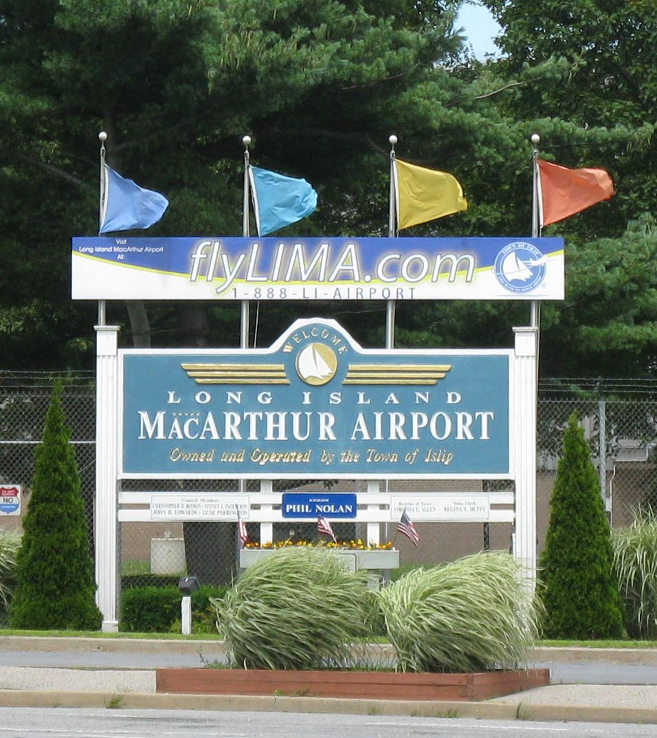 Entrance to Long Island MacArthur Airport.